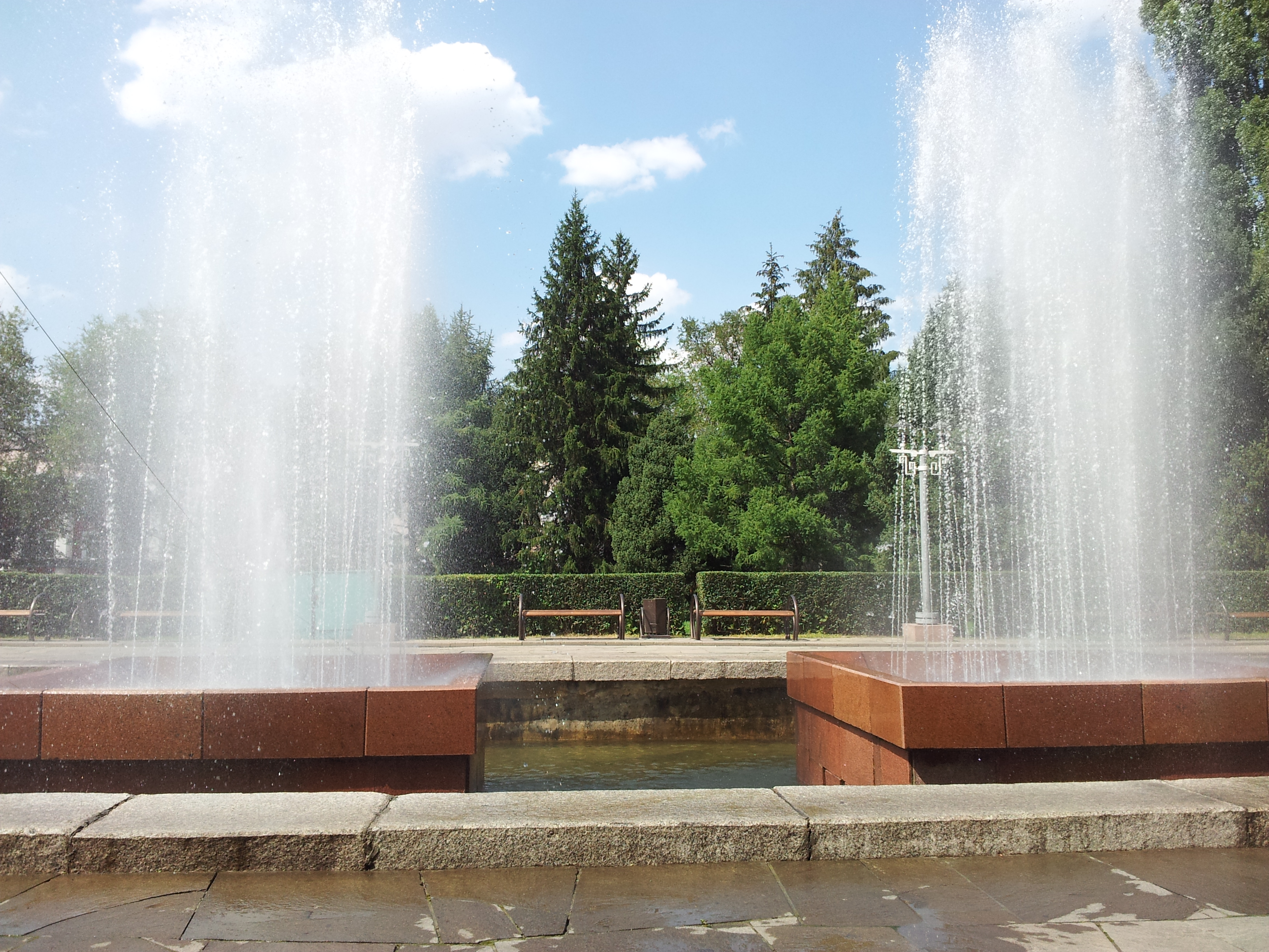 the fountain near Kunaev monument in Almaty